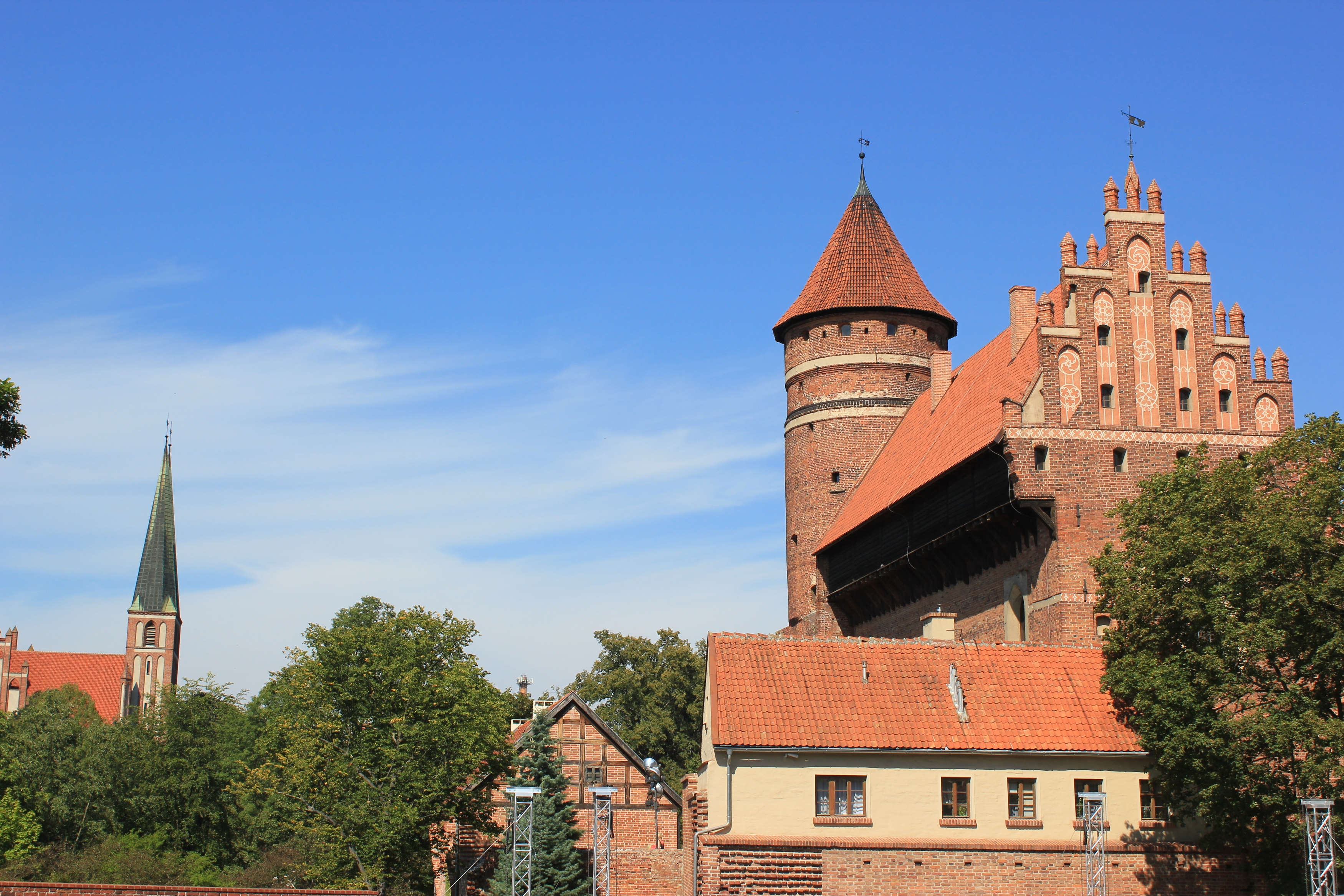 Olsztyn castle.